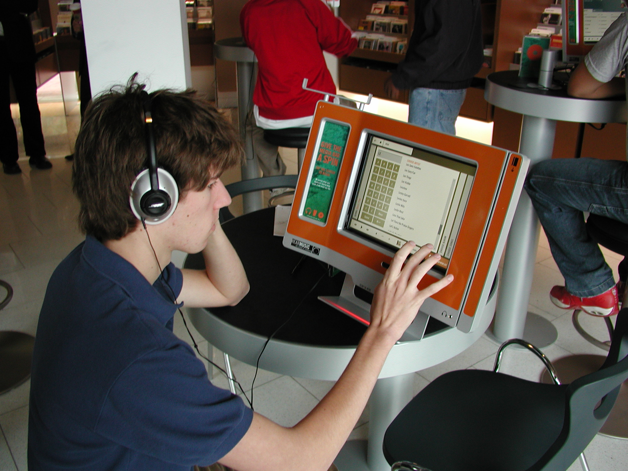 There are 35 of these LCD touchscreens around the store. They're what lets you access the 1 million+ songs that you can mix and burn. Each station has nice Bose headphones, an extra headphone jack, a barcode scanner, a card swiper, and of course, a touch screen.